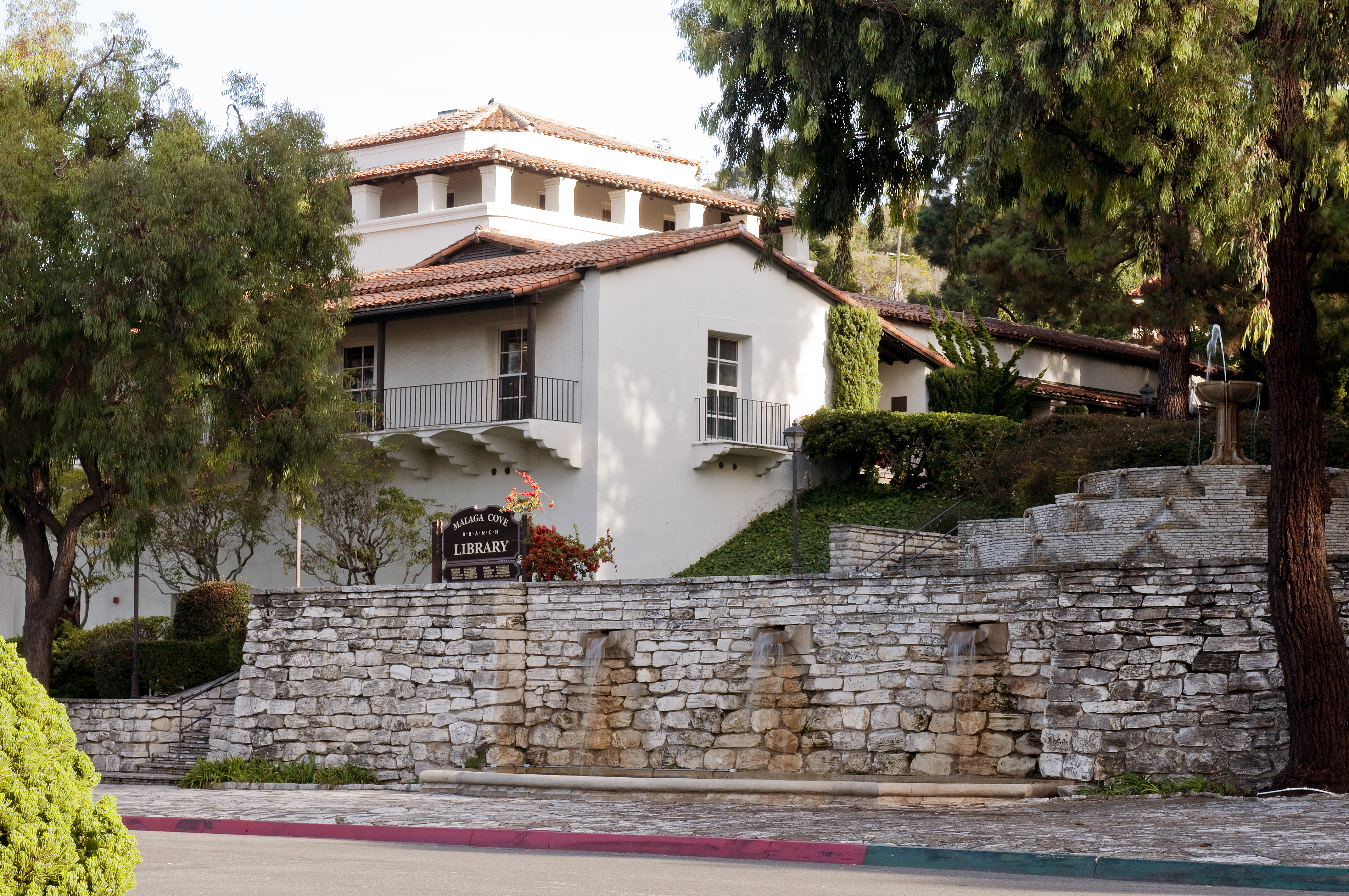 The Malaga Cove Branch Library — in Palos Verdes Estates, on the Palos Verdes Peninsula in Southern California. The 1930 building was designed in the Spanish Colonial Revival style by Pasadena architect Myron Hunt.